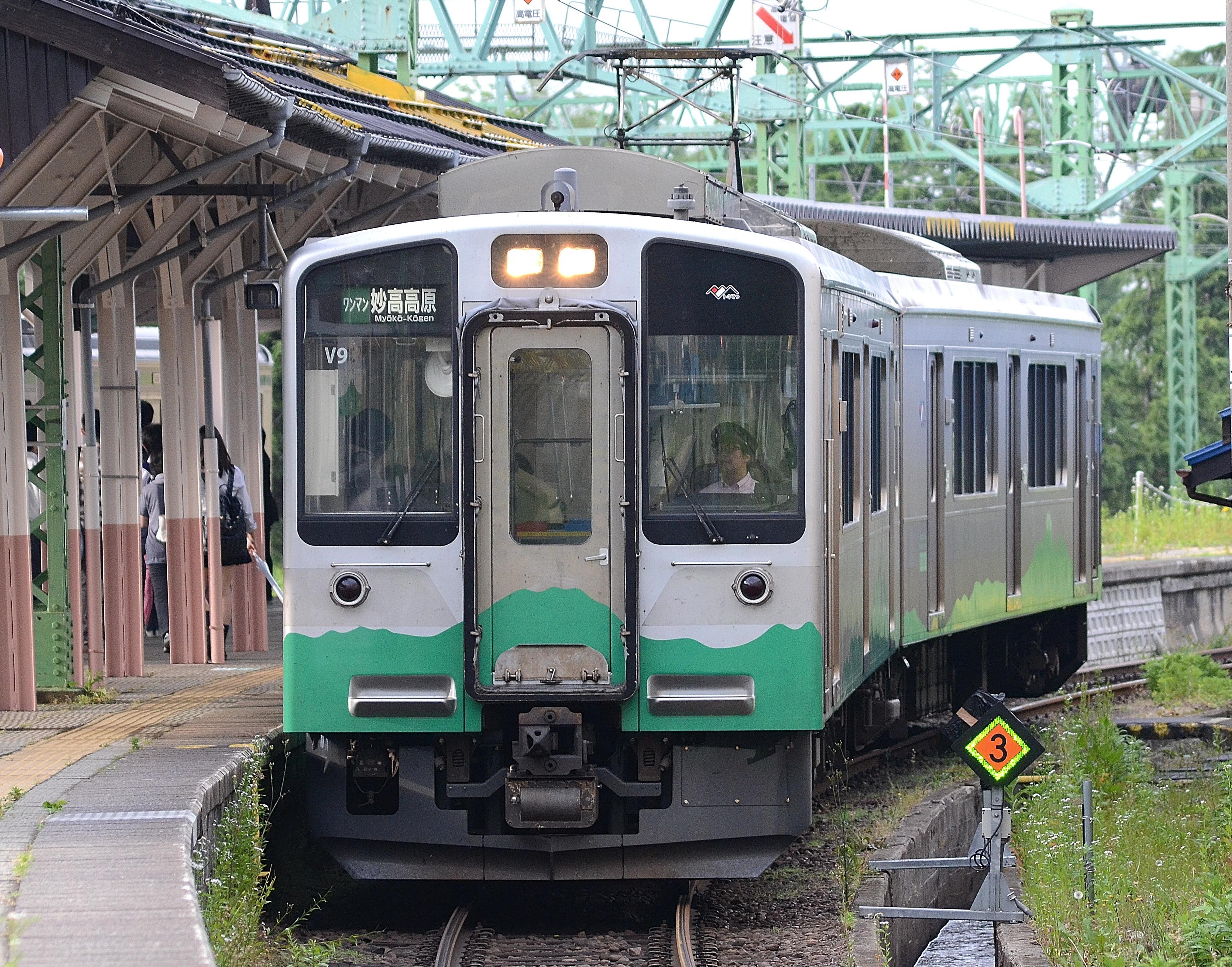 Echigo Tokimeki Railway ET127 series EMU set V9 at Nihongi Station